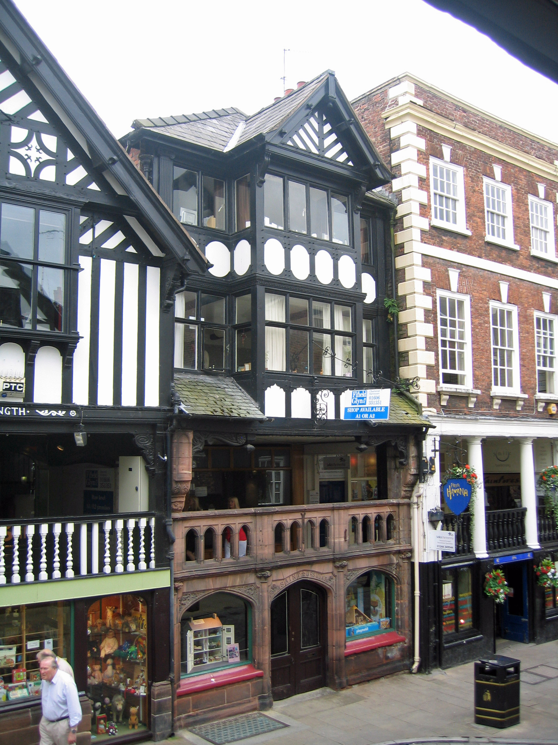 Photograph of the building known as St Ursula's in Watergate Street, Chester, Cheshire, England